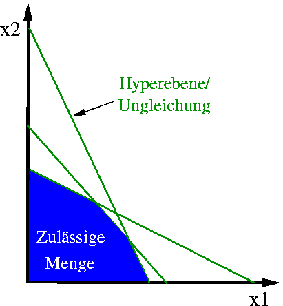 Shows a polyhedral feasible region bounded by hyperplanes, as occurring in linear optimization problems.